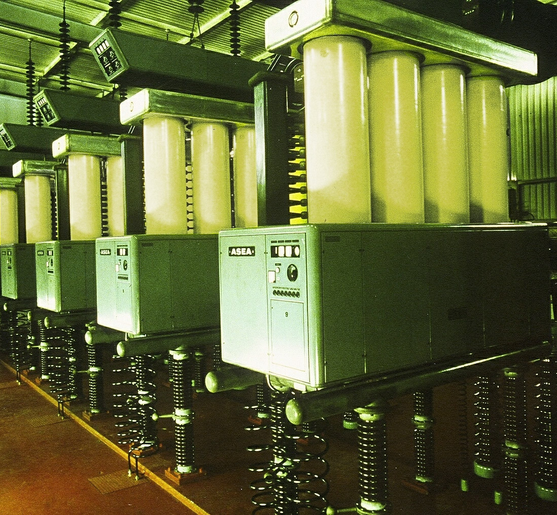 HVDC mercury arc valves manufactured by ASEA, shown in their normal service position in the Haywards valve hall of the New Zealand HVDC Inter-Island scheme